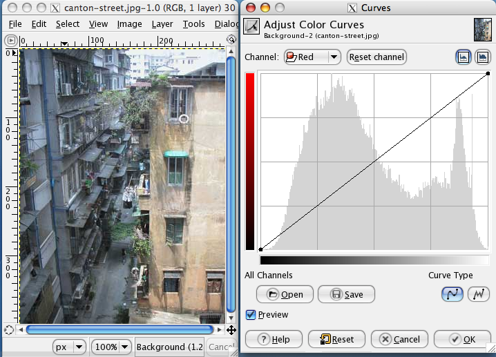 Illustration of the curves dialog in the Gimp